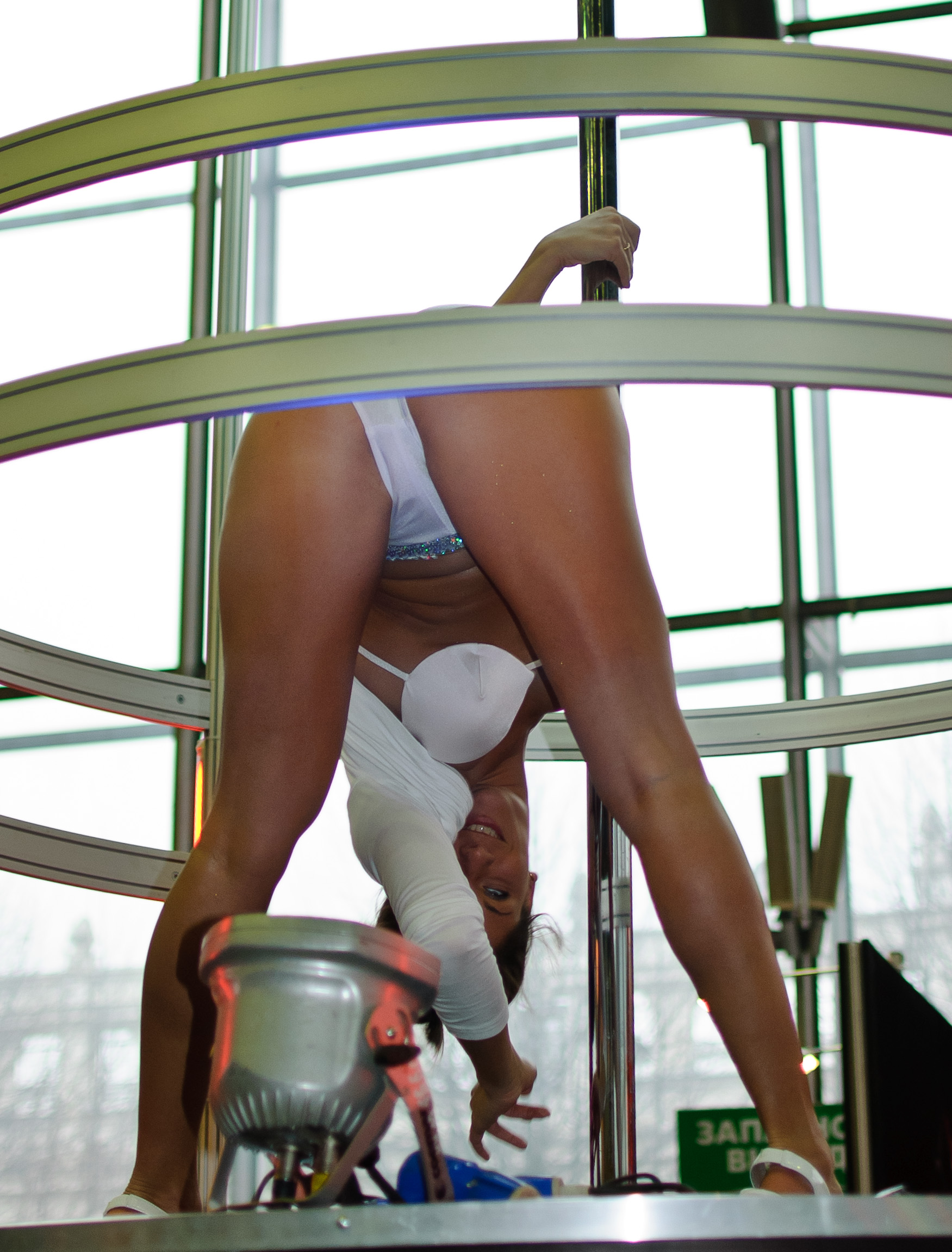 Girls of Igromir 2010